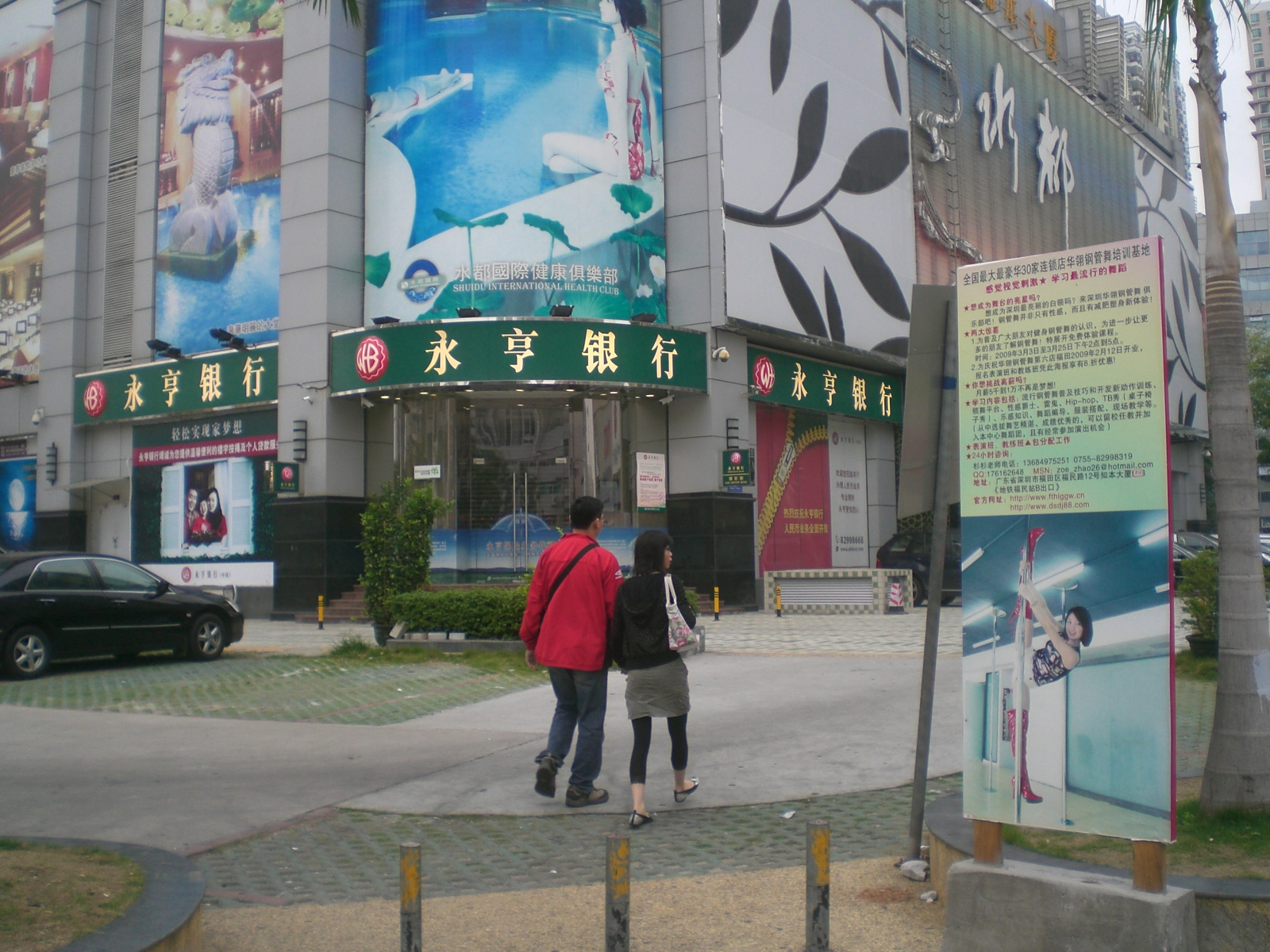 Futian District, Shenzhen